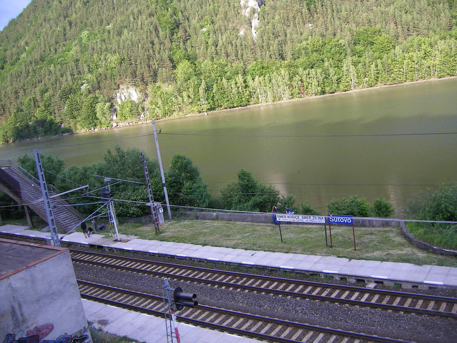 Šútovo - railway station